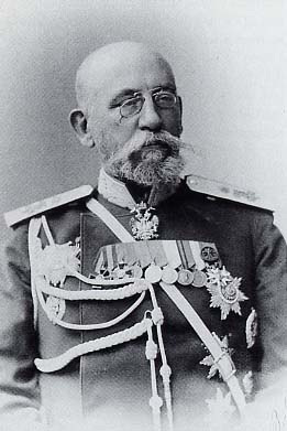 Bobrikov, Nikolay Ivanovich, Russian General of the infantry (b.1839-d.1904), Governor-General of Finland 1899-1904